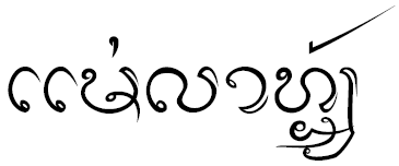 Lanna script – Mae La Noi is a district (Amphoe) in the southern part of Mae Hong Son Province, northern Thailand.